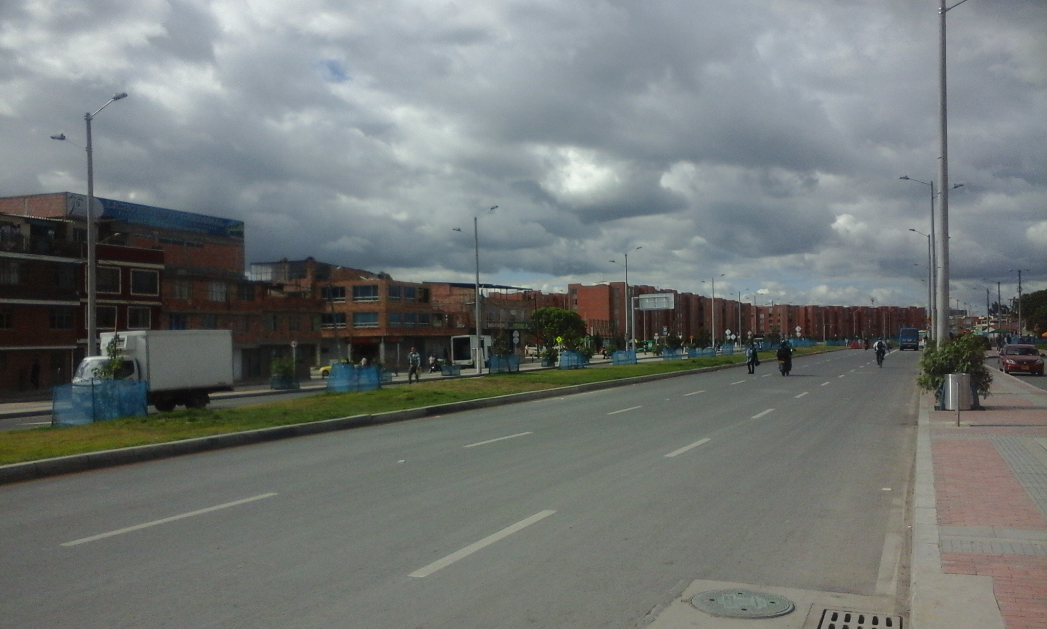 View of Ciudad de Cali Avenue between Bosa Laureles and Parques de Villa Javier neighborhoods (Capital District of Bogotá)